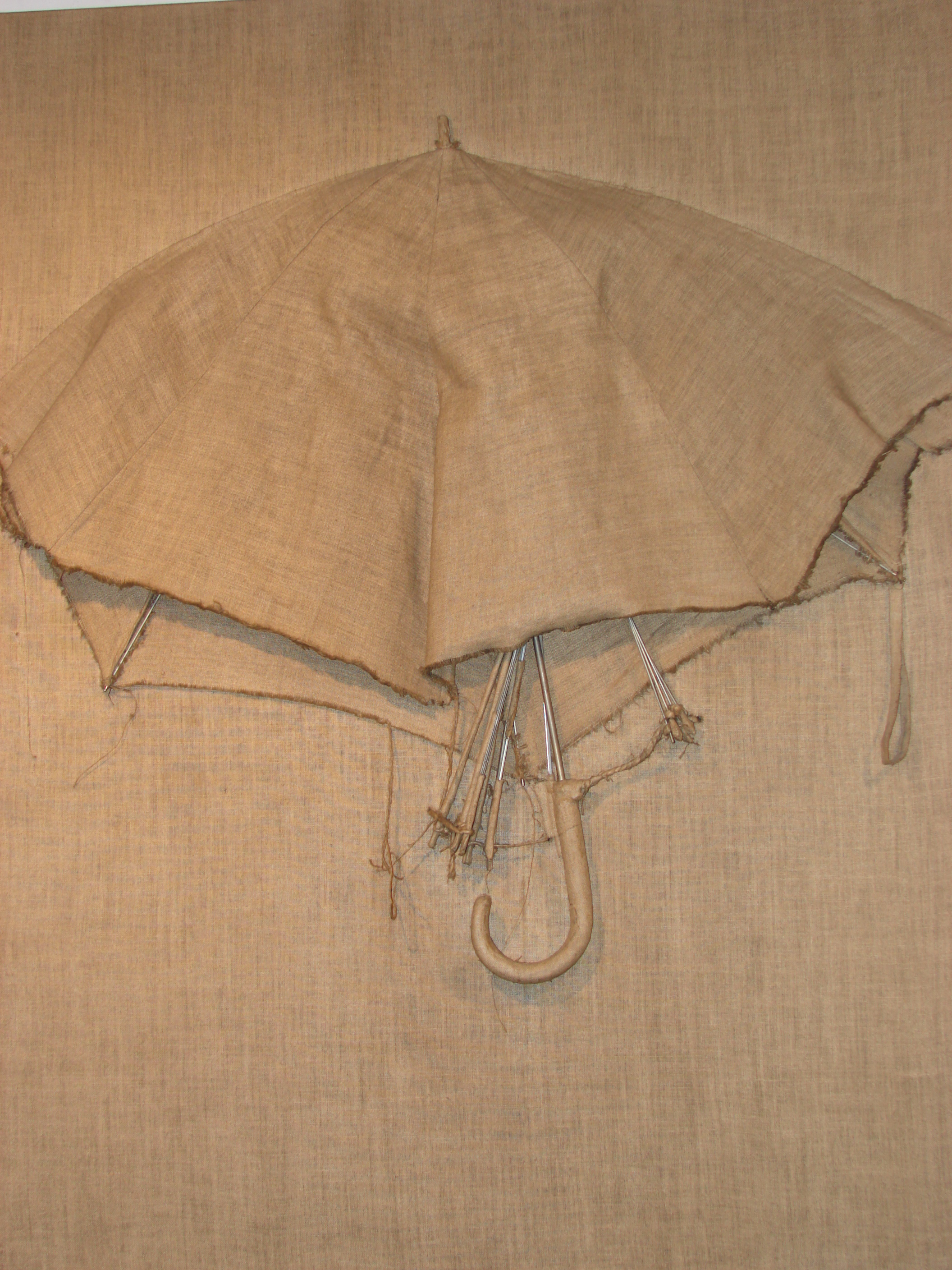 Cricoteka